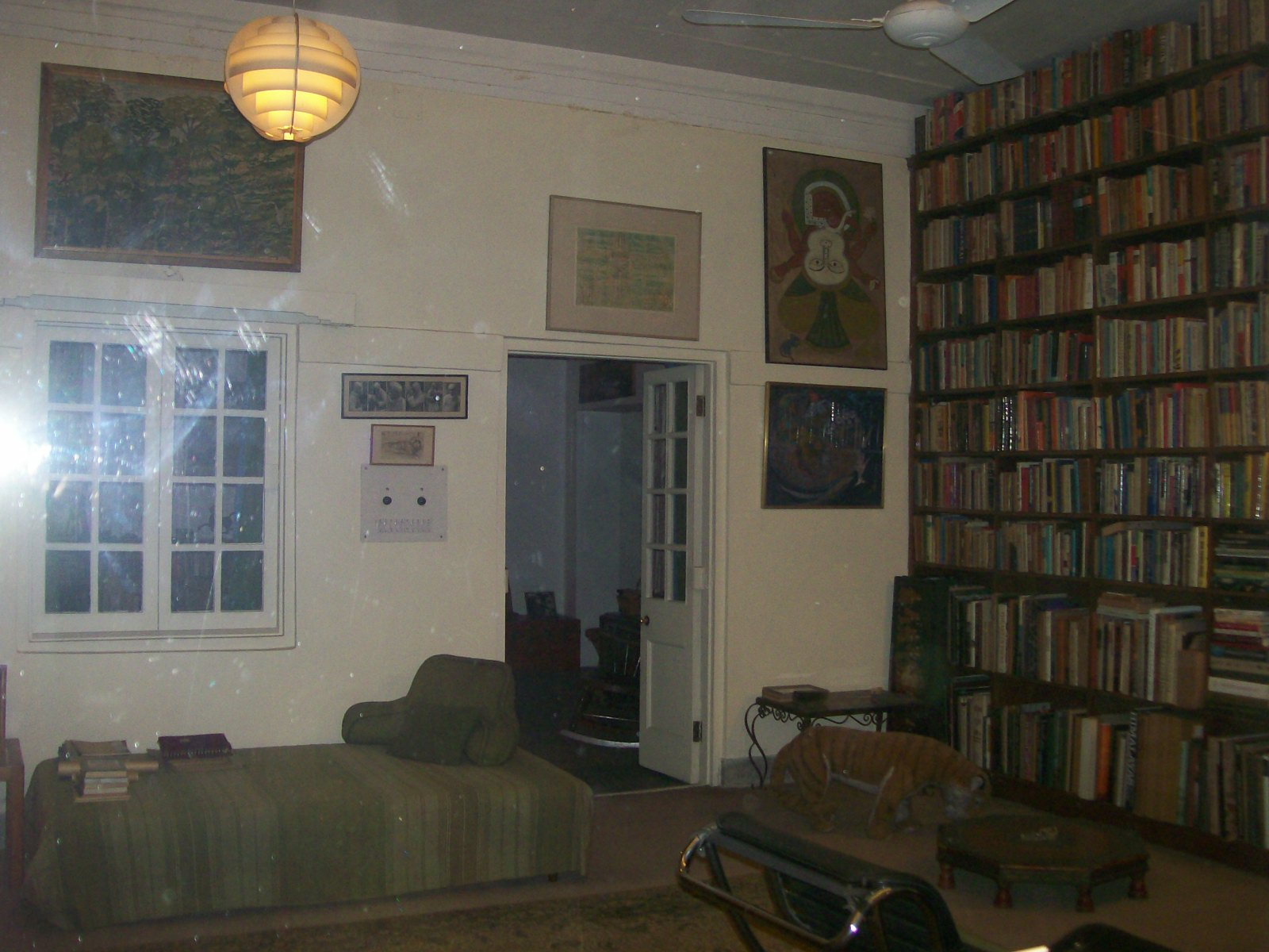 Indira Gandhi's personal library preserved at Indira Gandhi Memorial Museum in New Delhi.